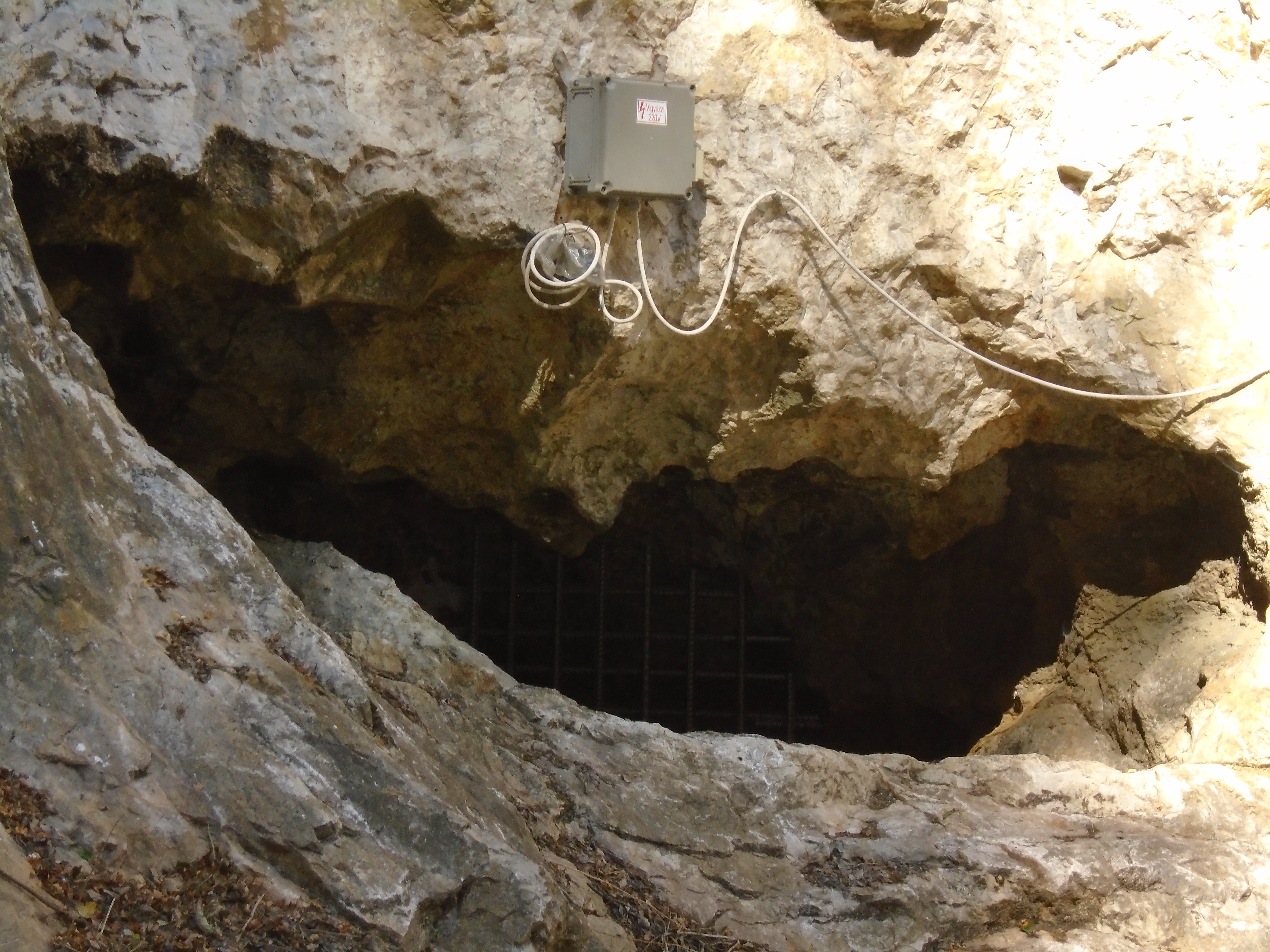 Entrance of Csókavári Cave in Üröm.